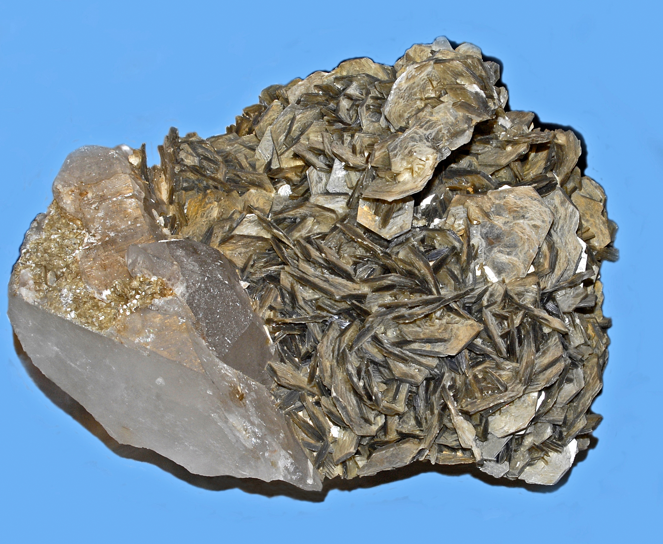 Phengite